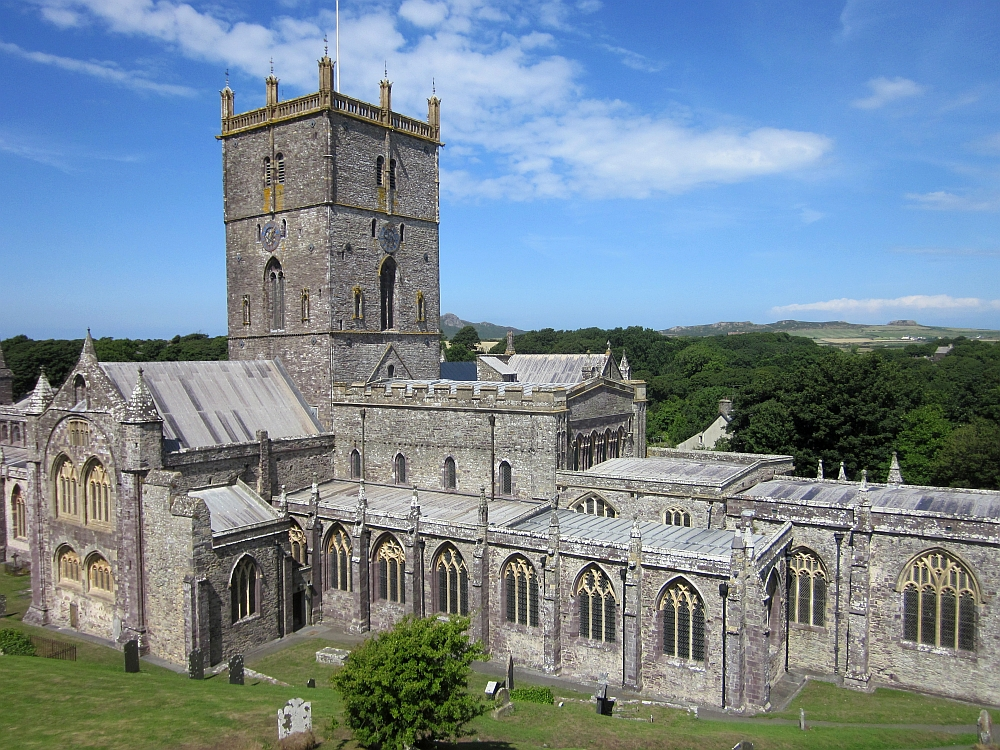 St Davids Cathedral Pembrokeshire UK